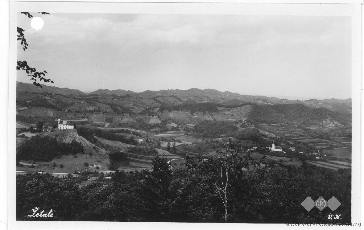 Postcard of Žetale